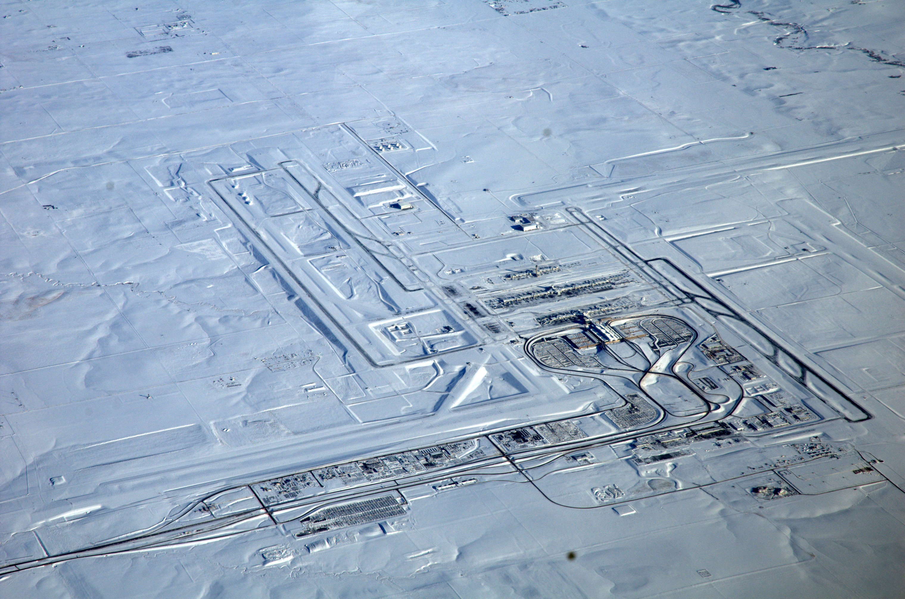 Denver International Airport on a flight from San Francisco to Washington, 22. Dec. 2006